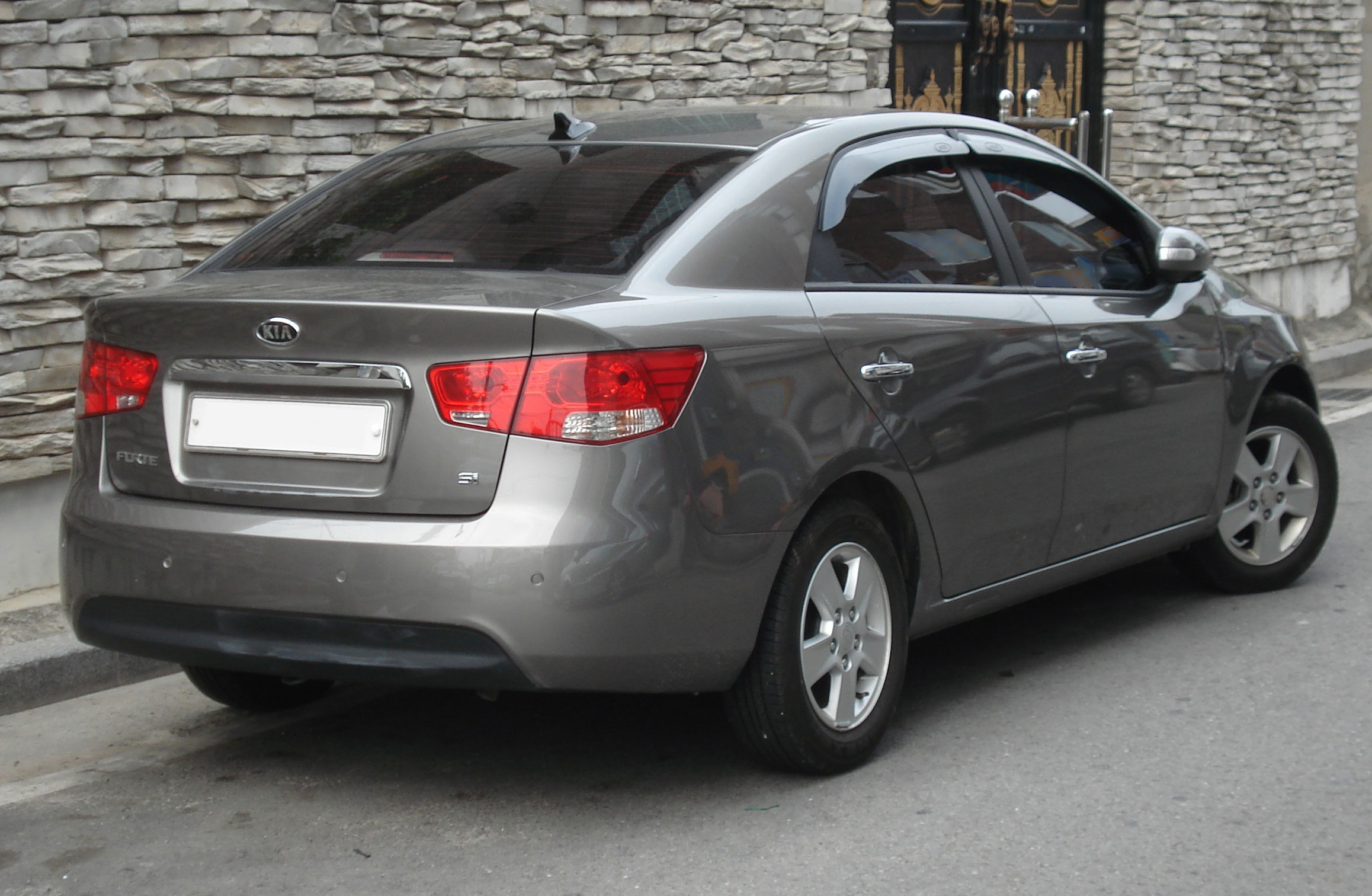 Kia Forte